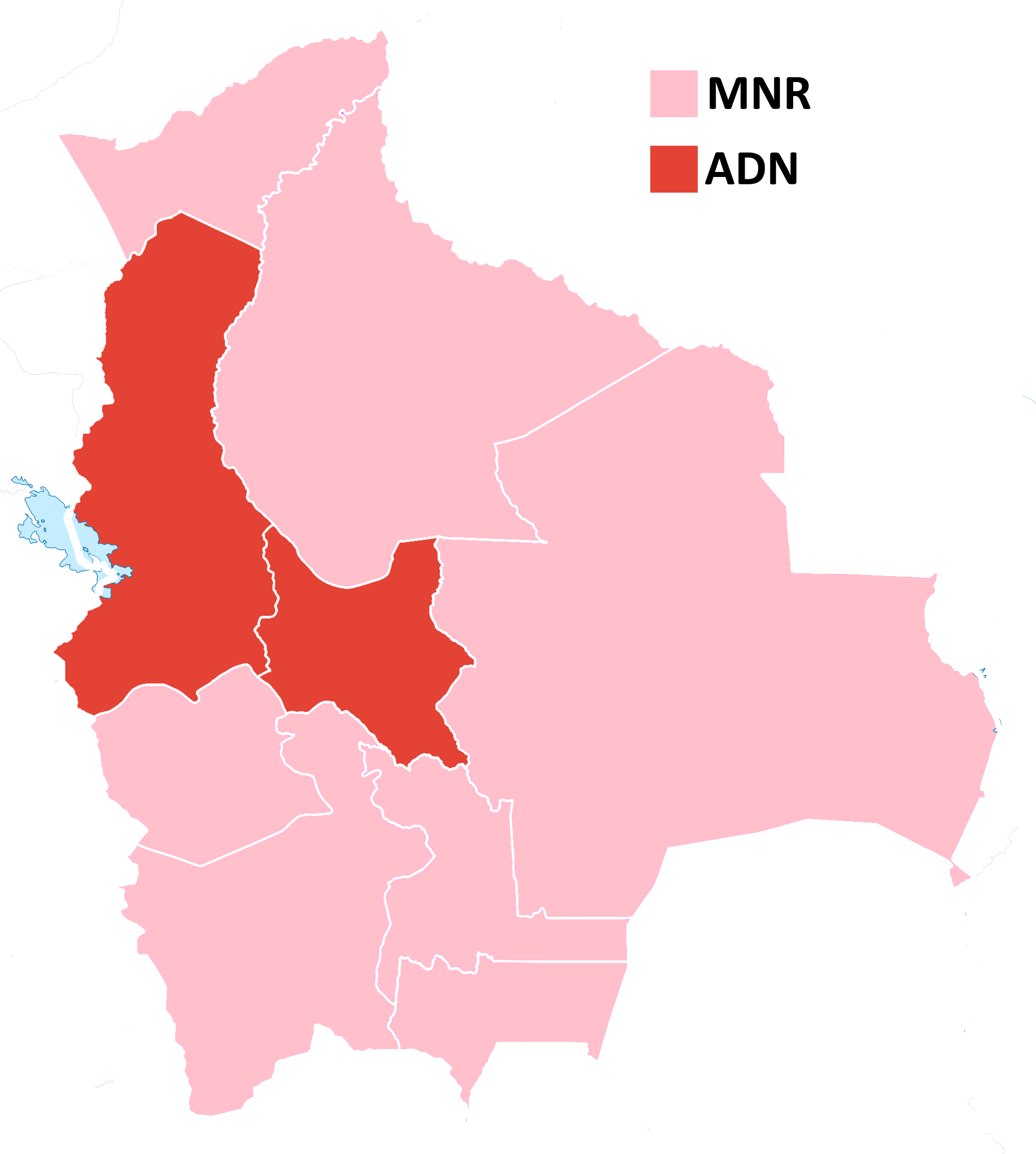 1985 Bolivian elections map